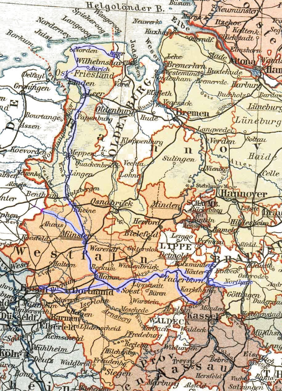 Königliche Westfalische Eisenbahn Strecken